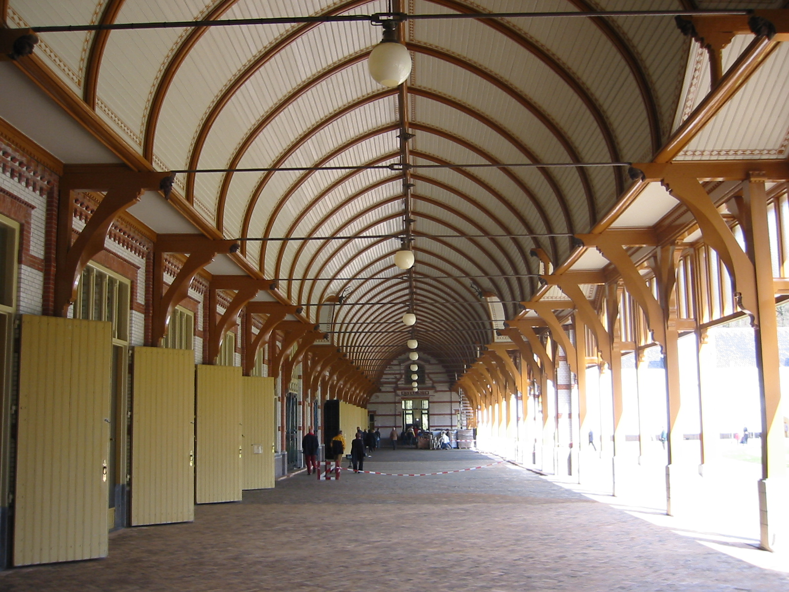 Castle "Het Loo" by Apeldoorn, The Netherlands